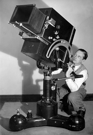 Swedish cinematohrapher Åke Dahlqvist (1901-1991) with a blimped Debrie Parvo model T. The model T was launched during the late 1920's and the blimp around 1929-1930. The dolly is also made by Debrie